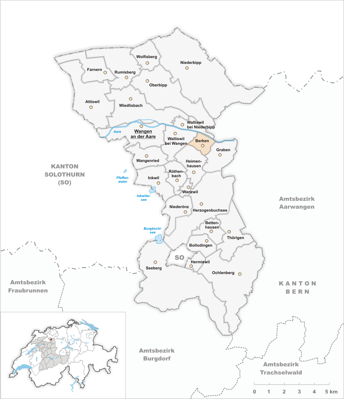 Municipality Berken